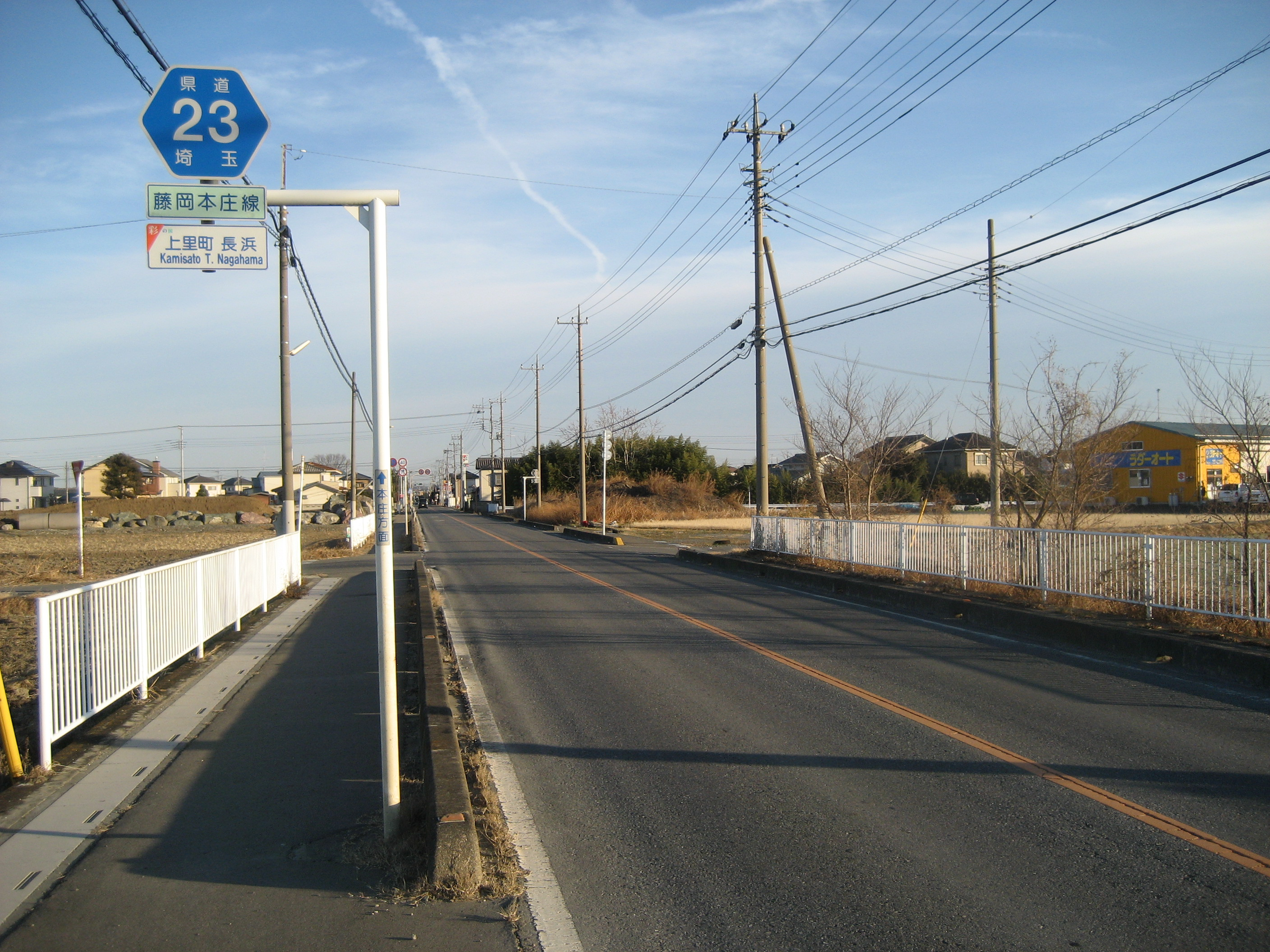 The Saitama Prefectural Road Route 23 in Nagahama, Kamisato Town